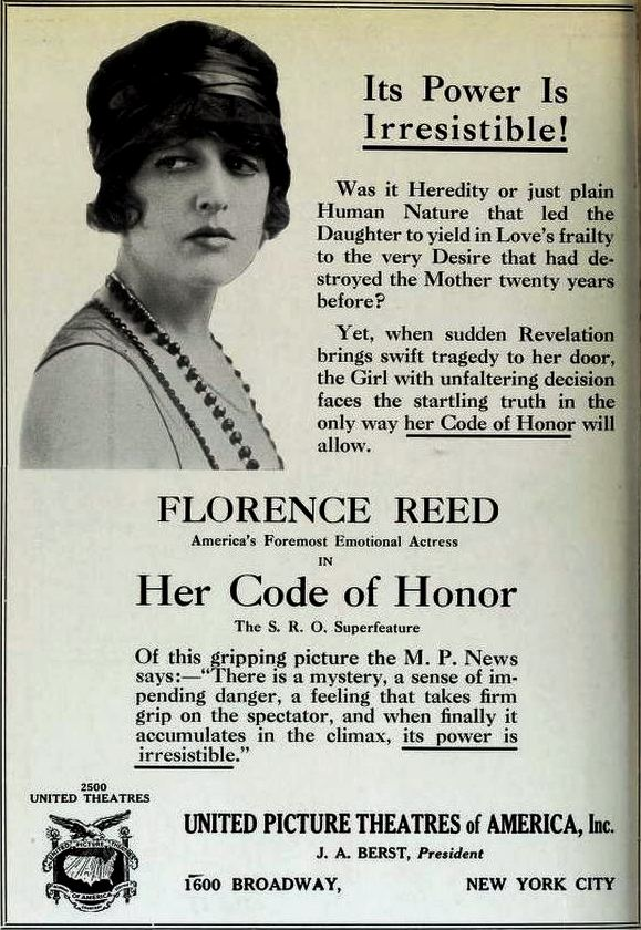 Ad for the American film Her Code of Honor (1919) with Florence Reed, in the insert before page 13 of the May 11, 1919 Film Daily.